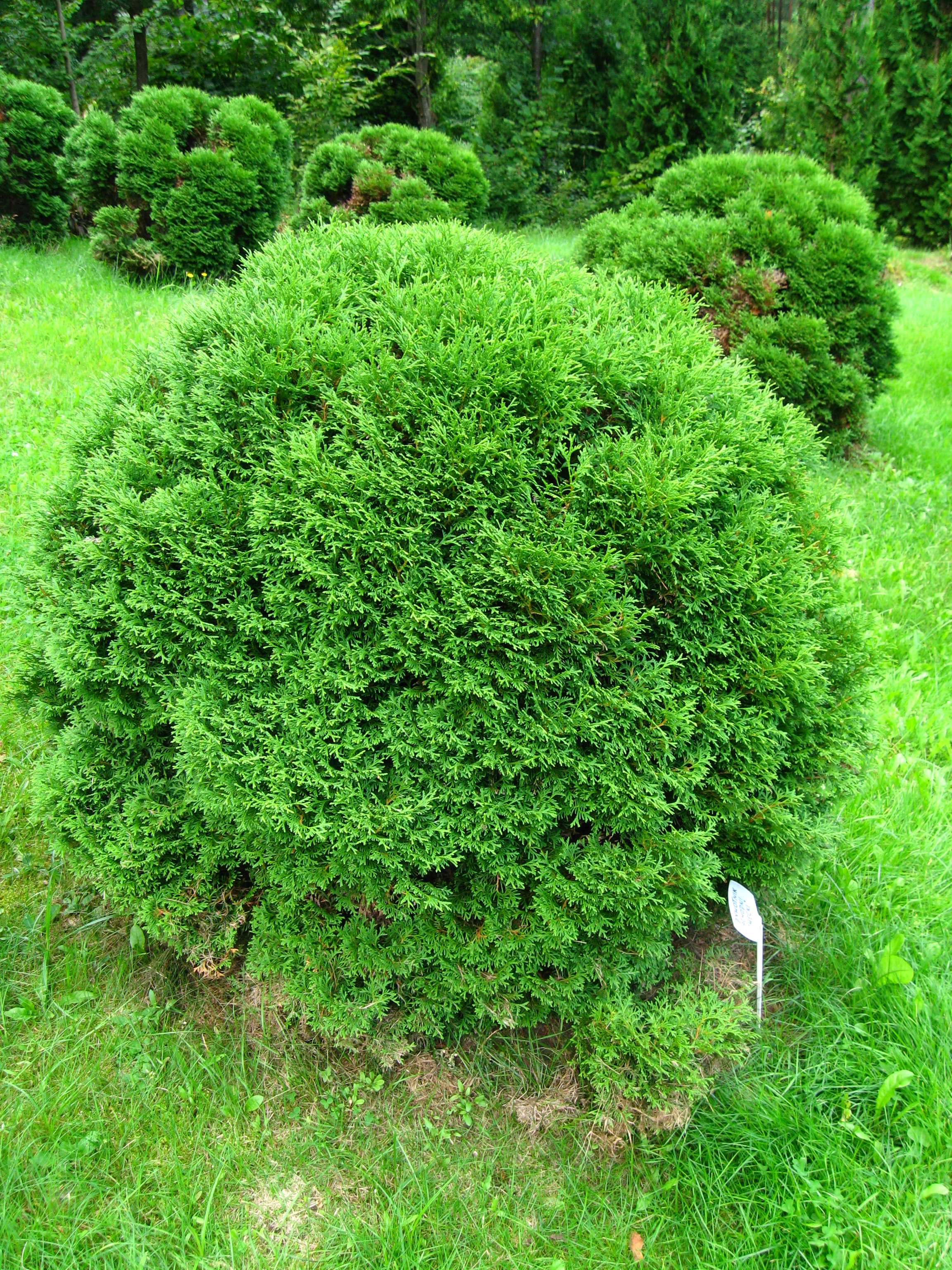 Northern Whitecedar var. 'Mecki' (Thuja occidentalis 'Mecki')